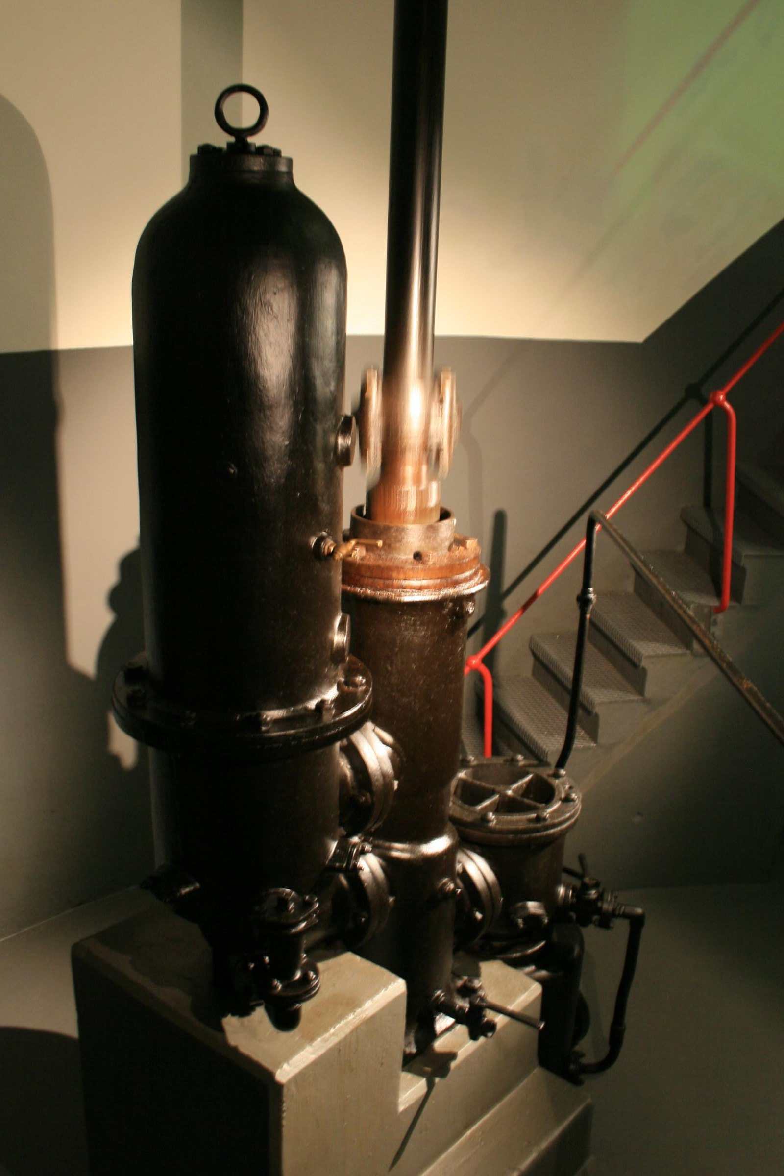 Cultural heritage monument No. K 057 in Mönchengladbach